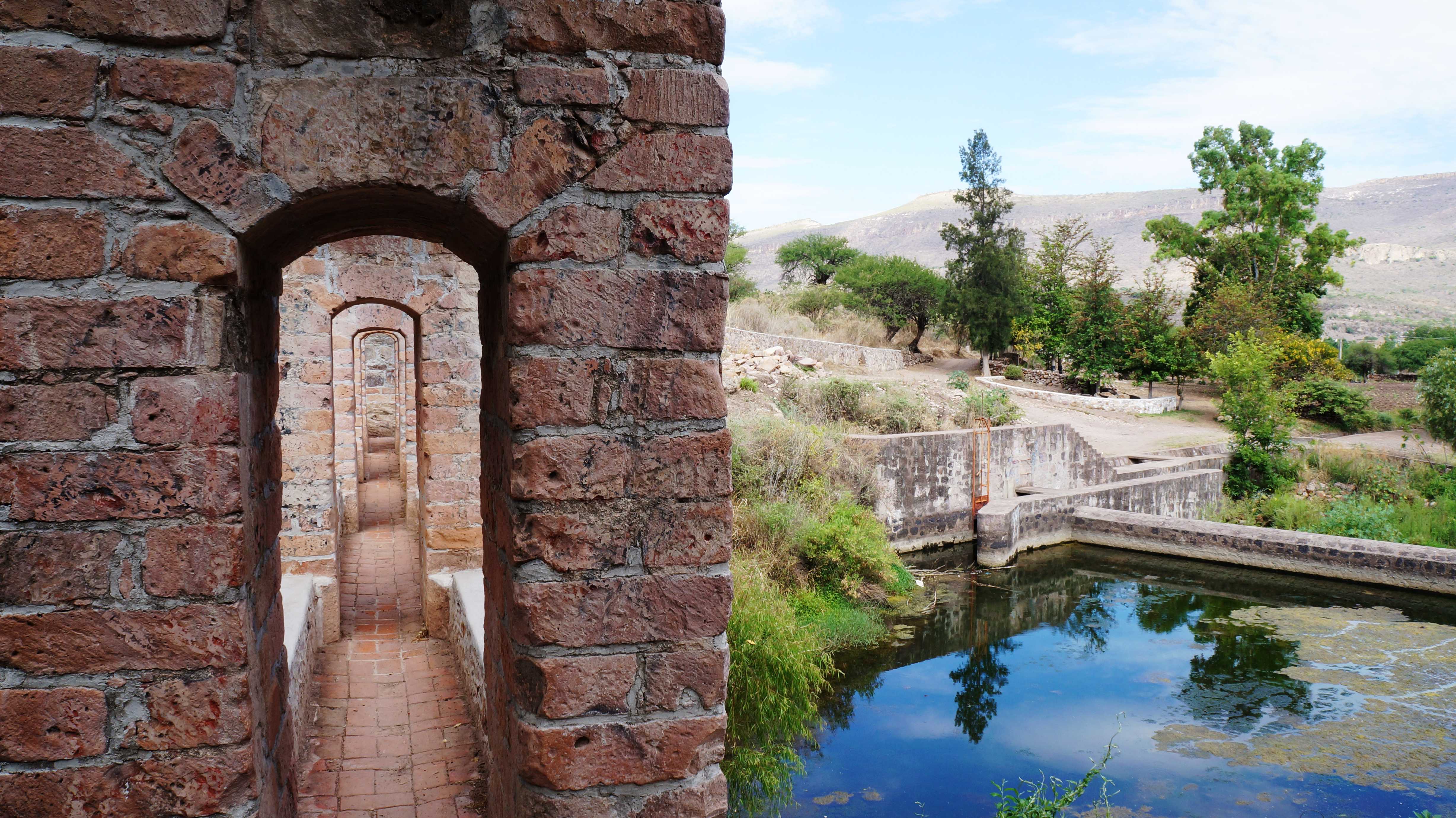 Colonial aqueduct in the north of Jalisco, Mexico